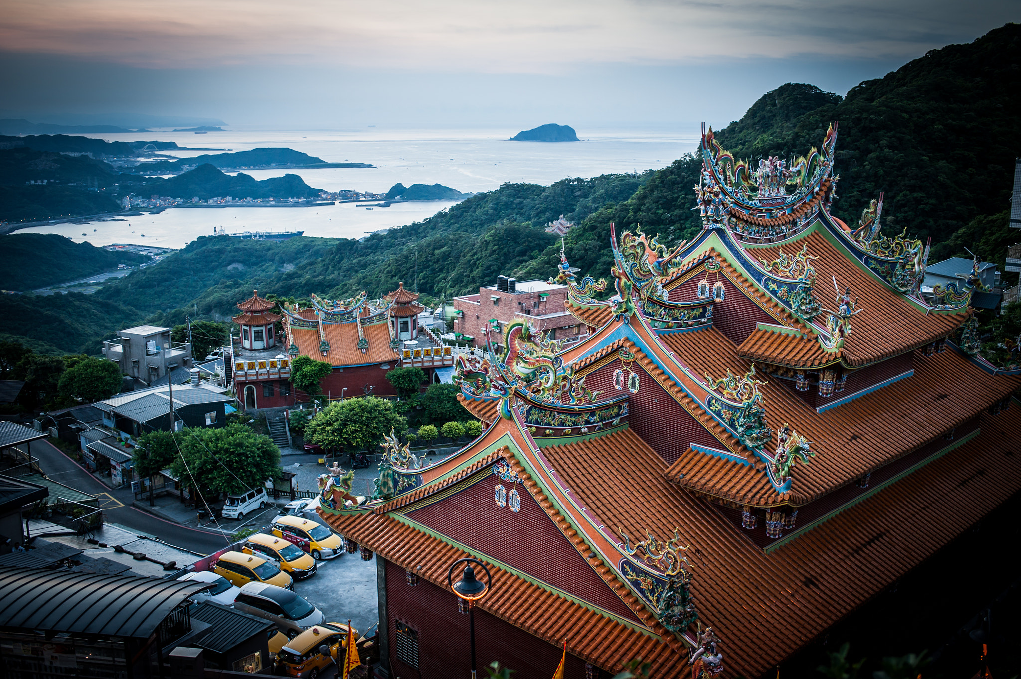 500px provided description: Taiwan S Landscape [#landscape ,#beautiful ,#nikon ,#landscapes ,#35mm ,#taiwan ,#D700 ,#koba_photo]